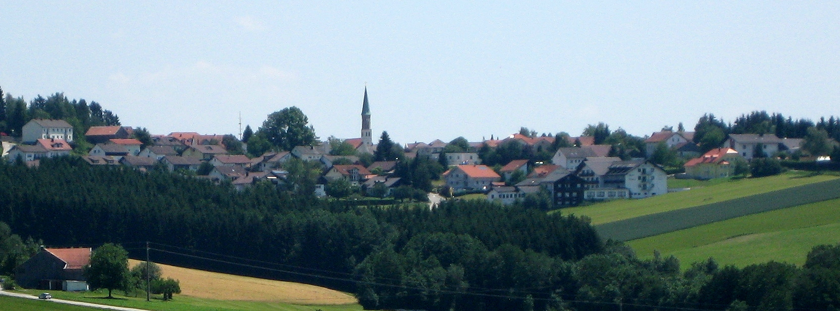 Büchlberg, seen from Hutthurm